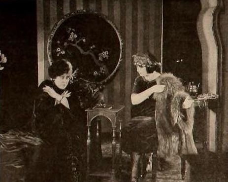 Still from the American film The Thirtieth Piece of Silver (1920) with Lillian Leighton and Margarita Fischer, page 3108 of the April 3, 1920 Motion Picture News.